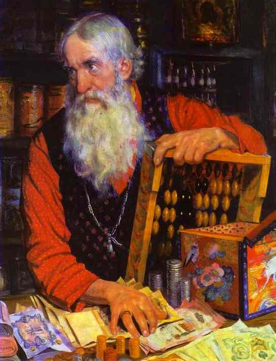 "Купец" (A Merchant) by Boris Kustodiev